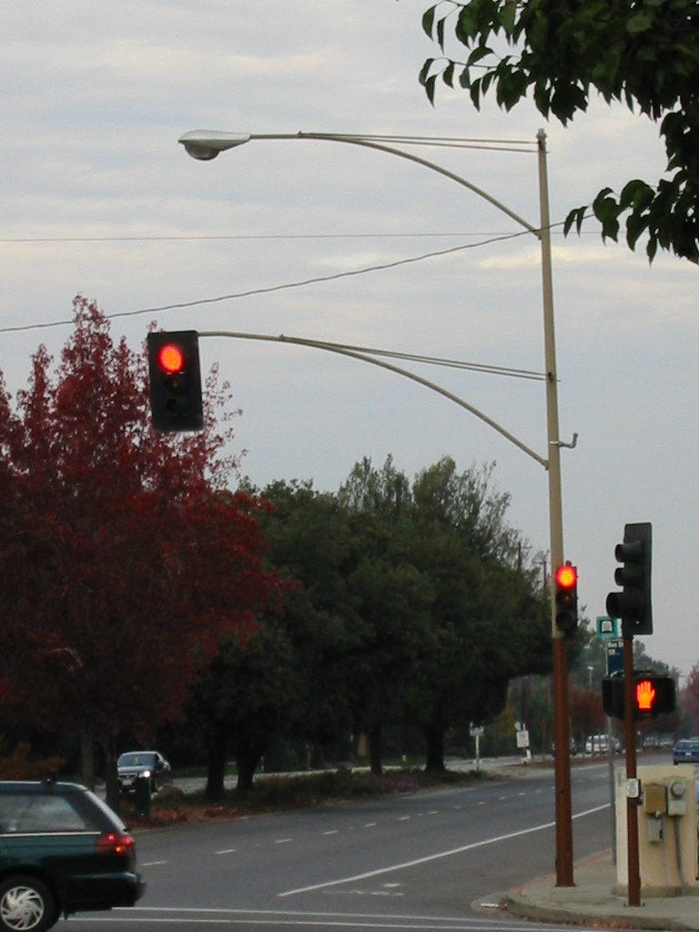 Traffic light at the corner of Saratoga and Cox Avenues in Saratoga.